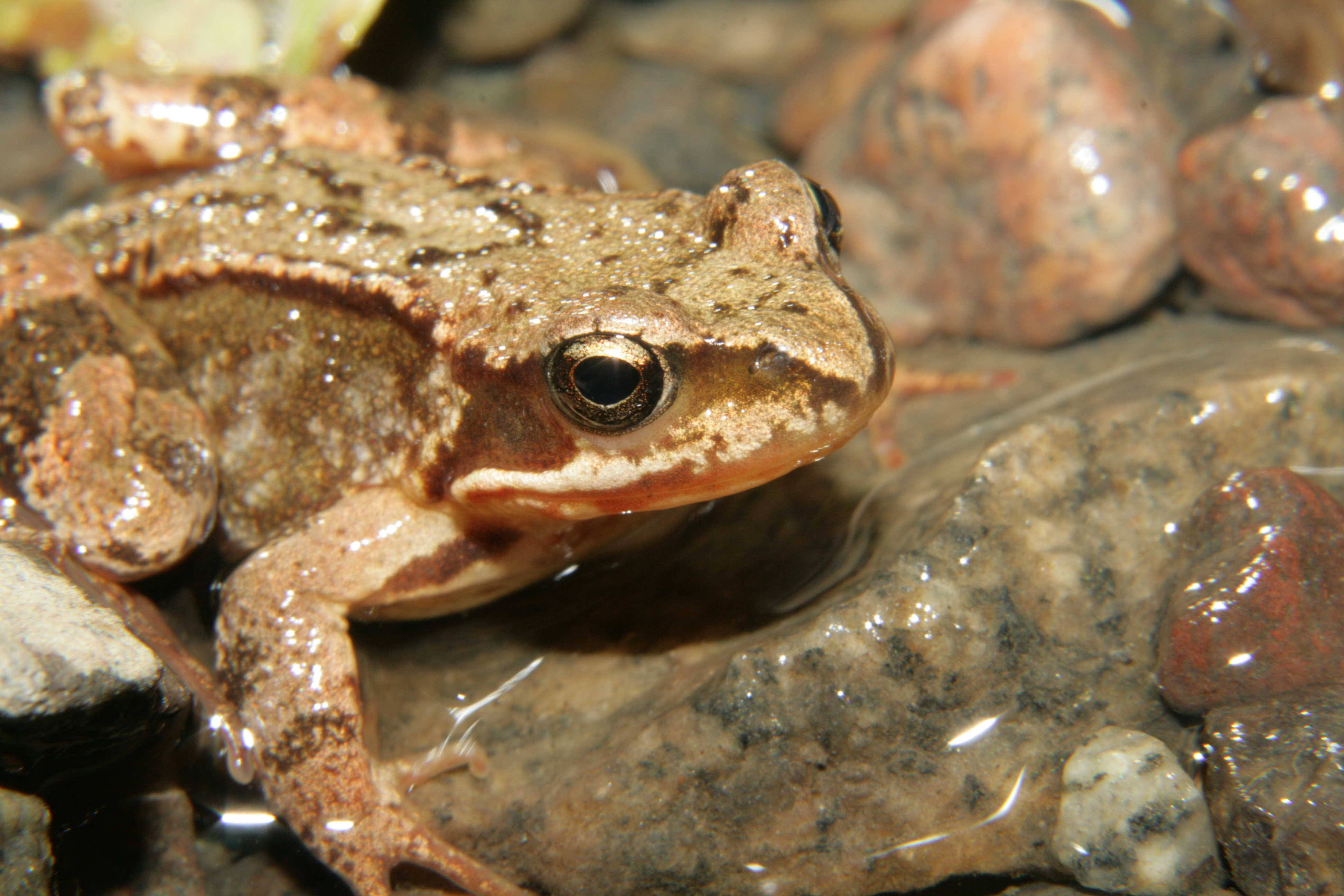 Young Rana arvalis or Rana temporaria seen in Lill-Jansskogen, Stockholm, Sweden.